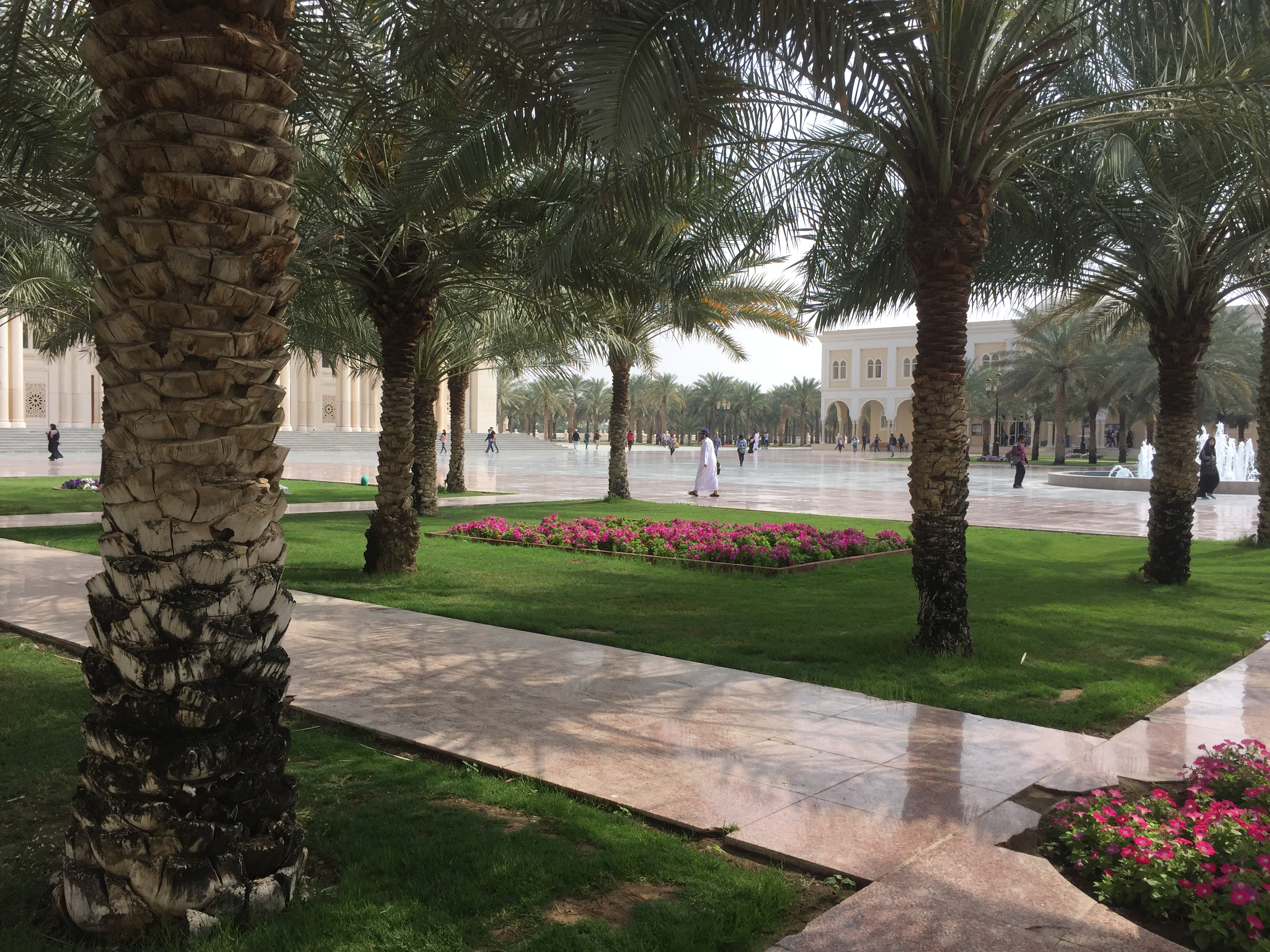 A view from the palms along the side of the main area of the American University of Sharjah.